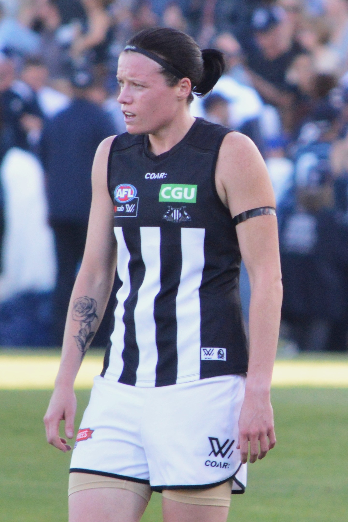 Stacey Livingstone during the round 1 AFL Women's match between Carlton and Collingwood in February 2017